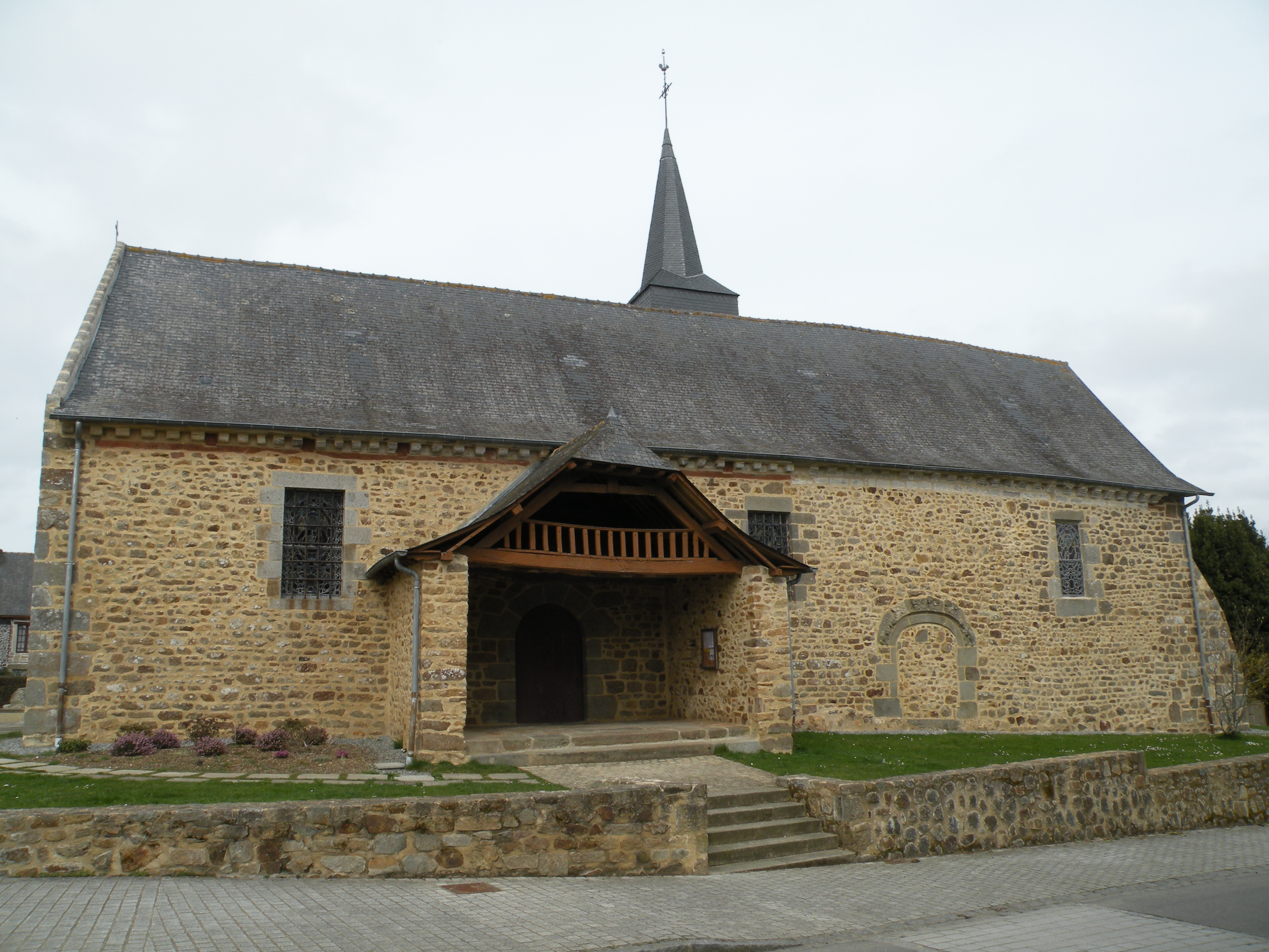 Southern façade of Saint-Armel church in Langouet.